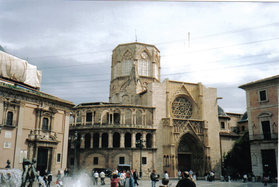 Exterior view of Valencia Cathedral. (C) 2004, Gerry Lynch